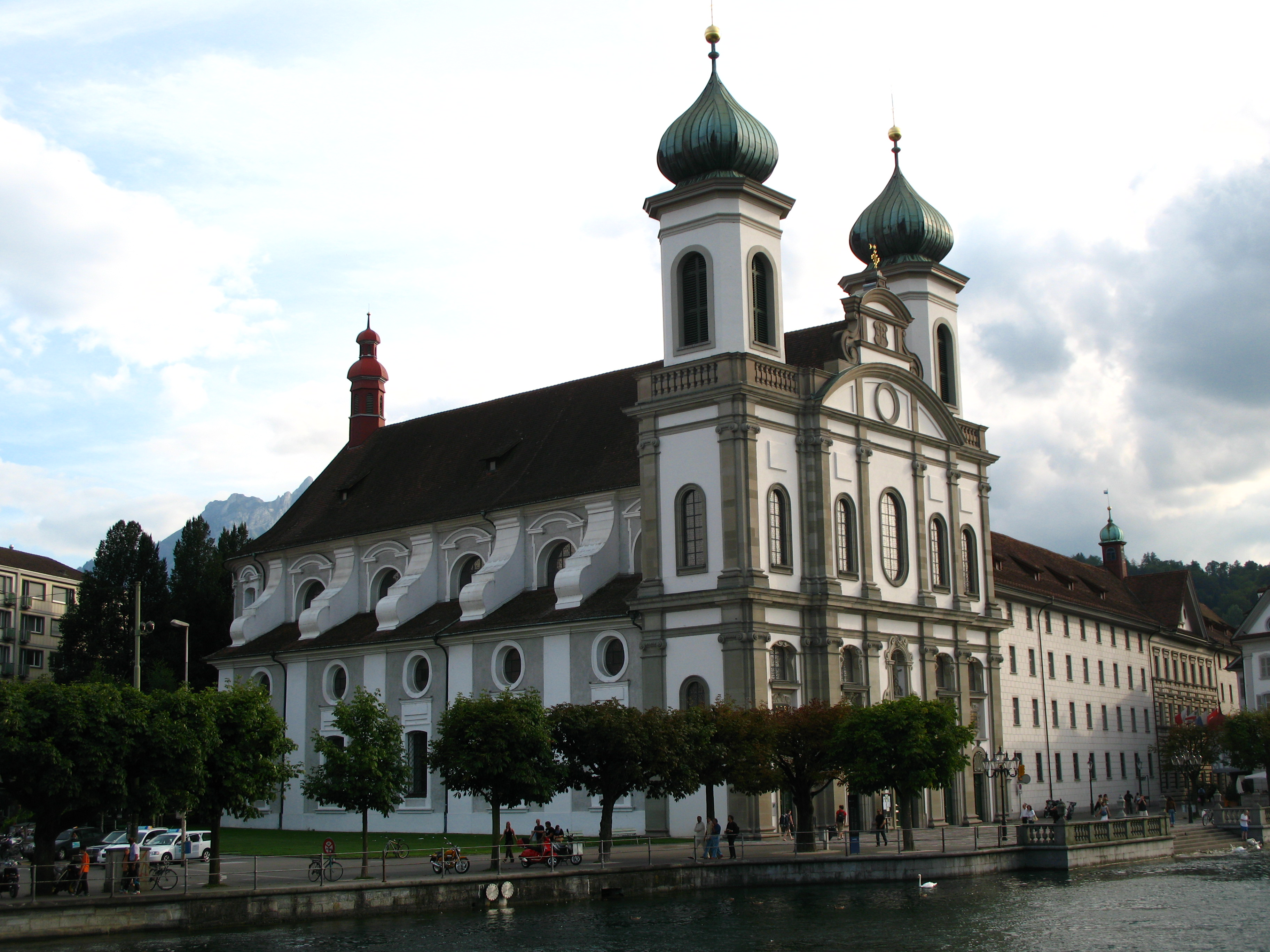 Jesuit Church, Luzern, Switzerland